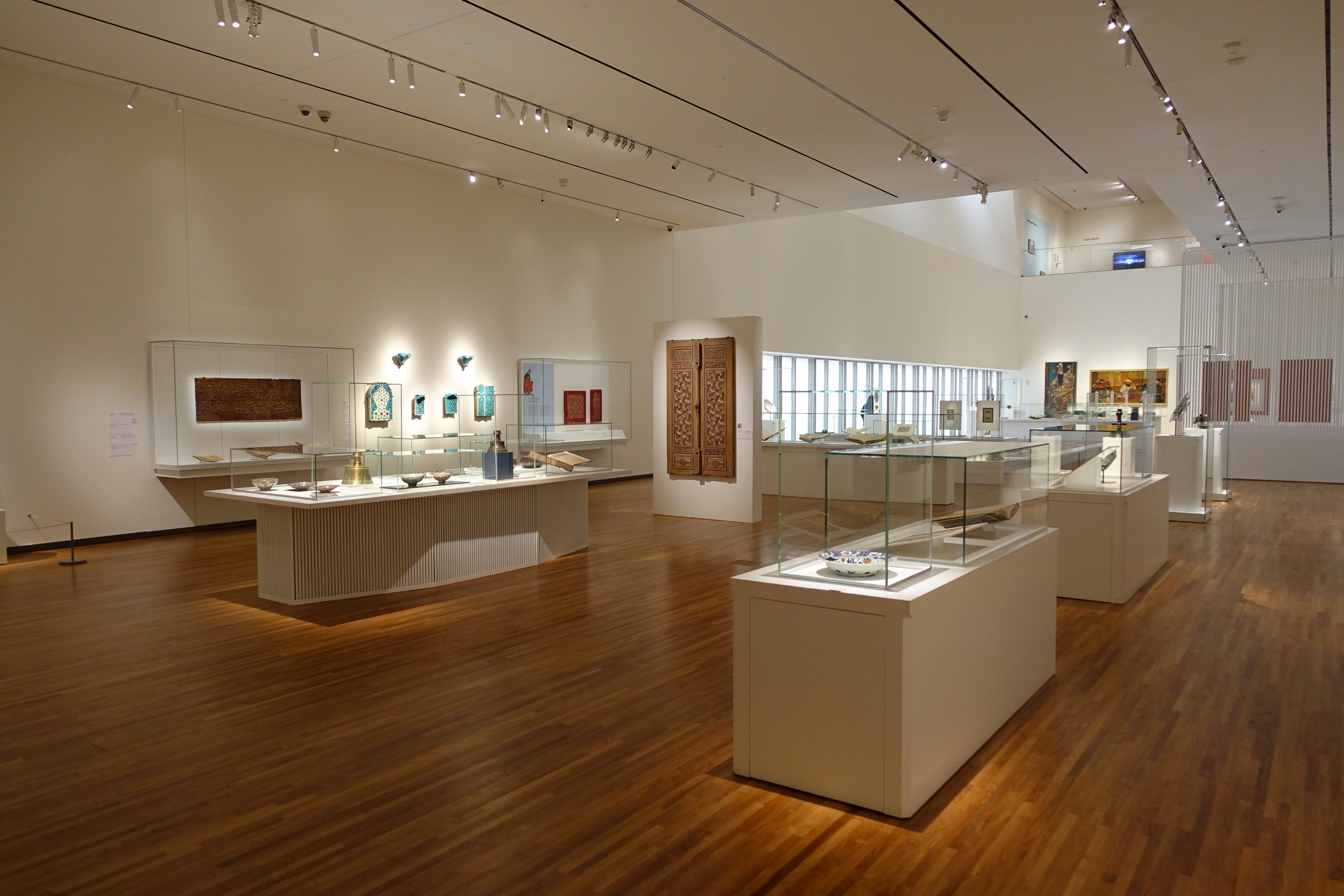 Interior view of the Aga Khan Museum - Toronto, Canada. All works are old enough so that they are in the public domain.